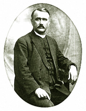 Gjergj Fishta